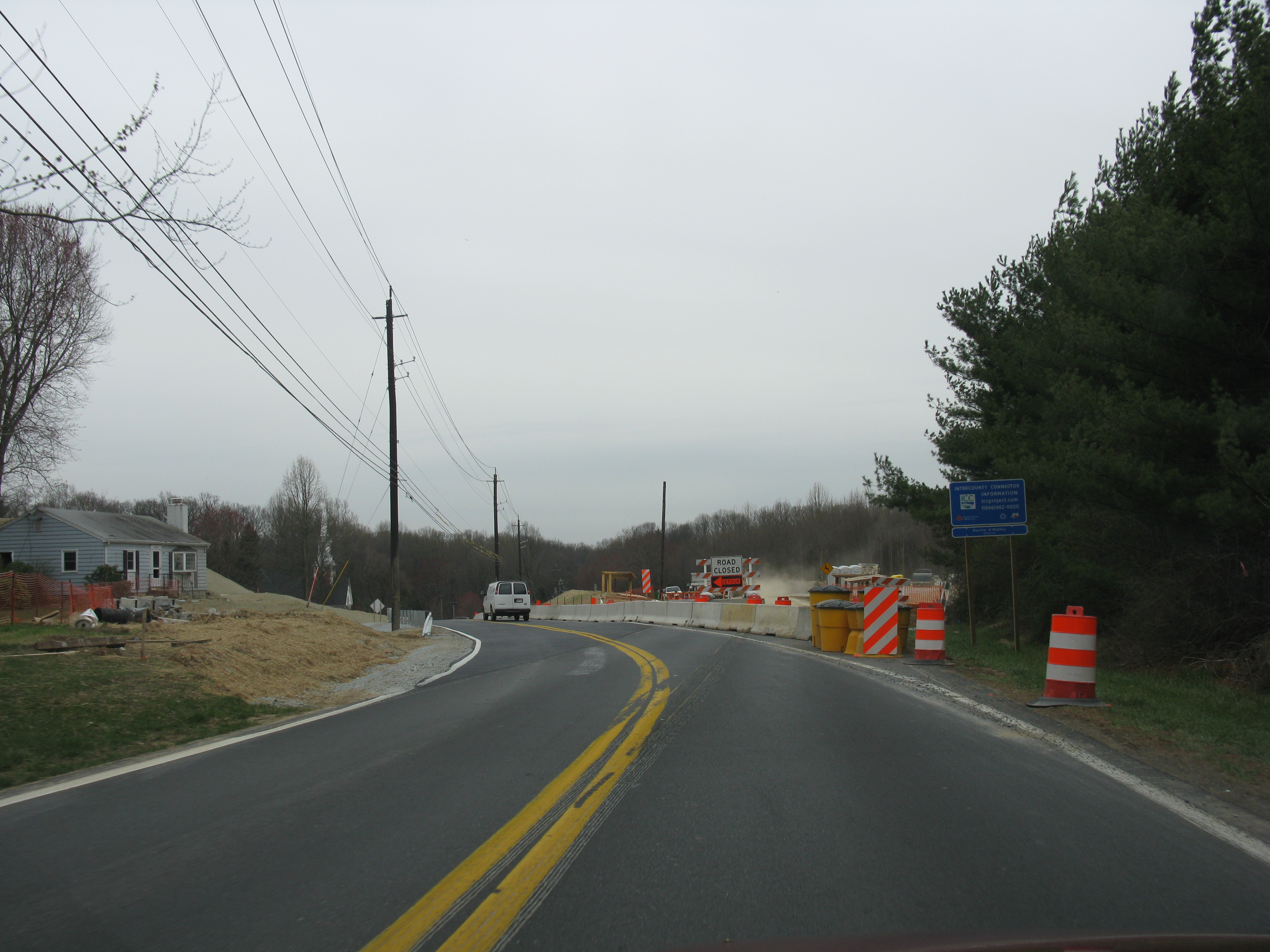 The construction of the future Maryland Route 200, popularly referred to as the Intercounty Connector at its future bridge over Redland Road in Redland, MD, USA.